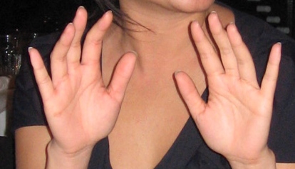 A woman holding up her hands, as in the game Ten Fingers.